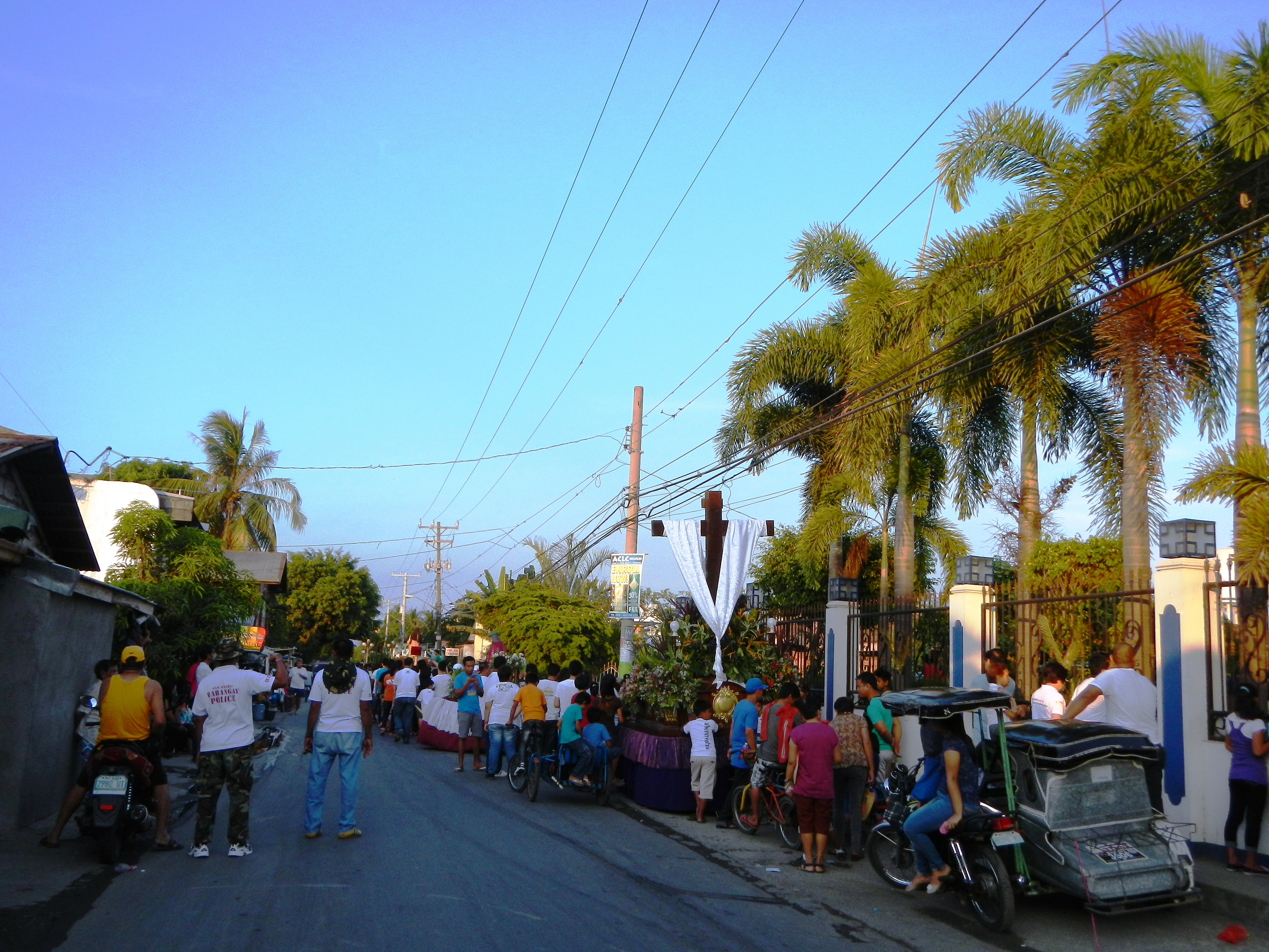 Hagonoy, Bulacan (Barangay, Hanga, San Agustin, including Good Friday processions in the [ Our Mother of Perpetual Help Parish Churdch in San Pedro, Hagonoy, Bulacan of the Roman Catholic Diocese of Malolos Vicariate of St. Anne along the Malolos-Paombong-Hagonoy Provincial Road).